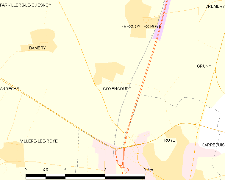 Map of French municipality Goyencourt